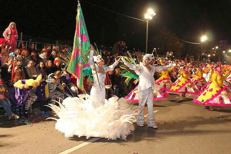 Carnaval de Ovar (Portugal)'s Juventude Vareira Flag Bearer